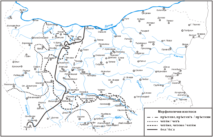 Map showing morphological isoglosses of Bulgarian speech.